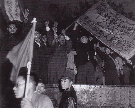 Korean people who shout "Manse"(Banzai)